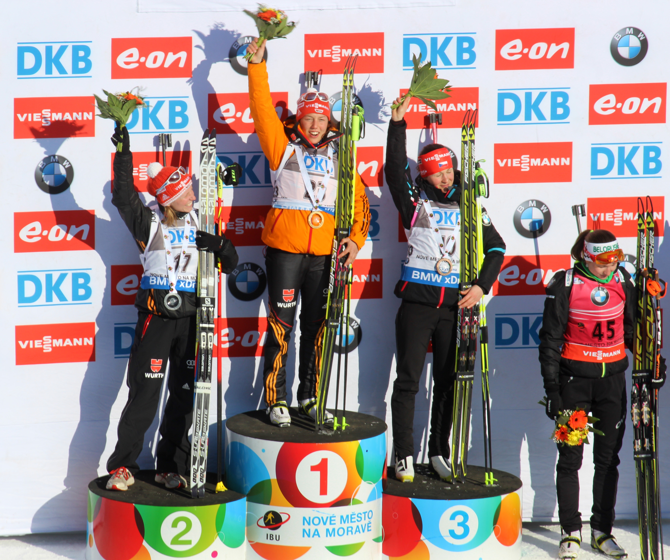 Biathlon World Cup 2015 in Nové Město, Czech Republic – podium after sprint women. From left to the right / Zleva: Franziska Hildebrand, Laura Dahlmeier, Veronika Vítková and Darya Domracheva.